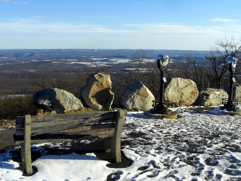 High Point Park Historic District This photo was taken at High Point State Park in Montague Township, NJ.